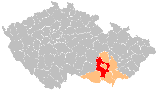 Brno-Country District within South Moravia Region. Current borders of districts since January 1, 2007.